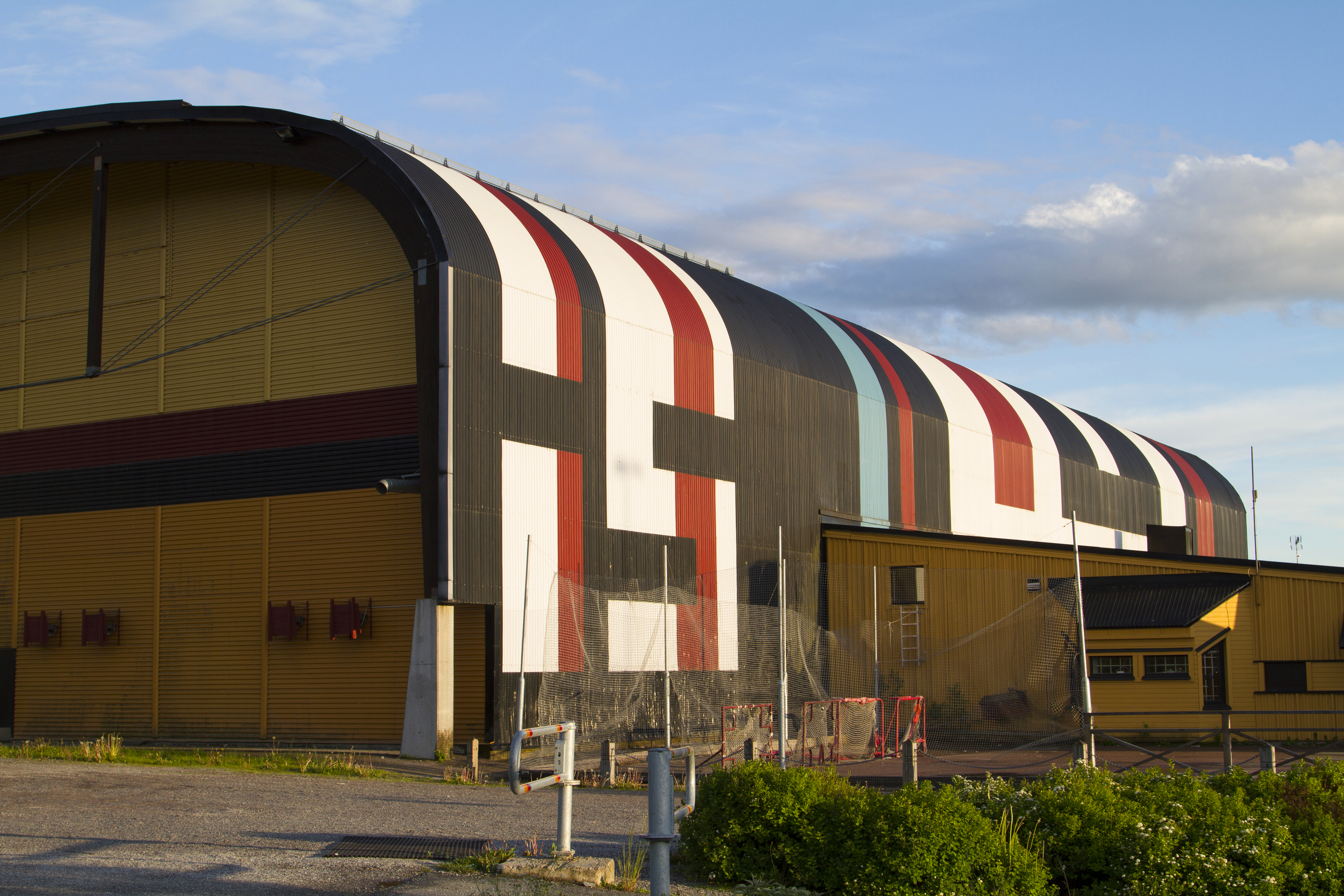 Pinbackshallen indoor icehockey rink in Marsta